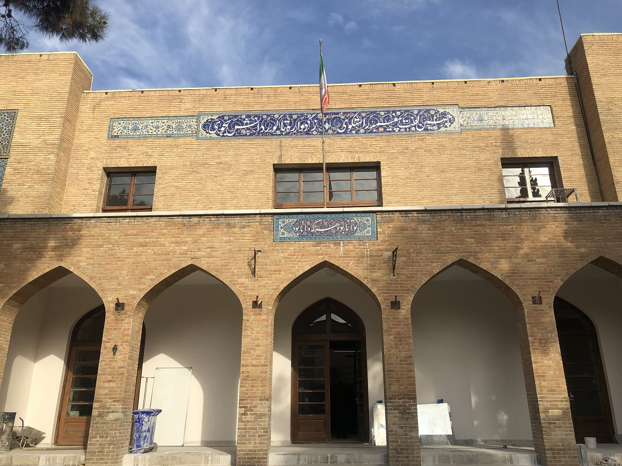 Kharazmi University